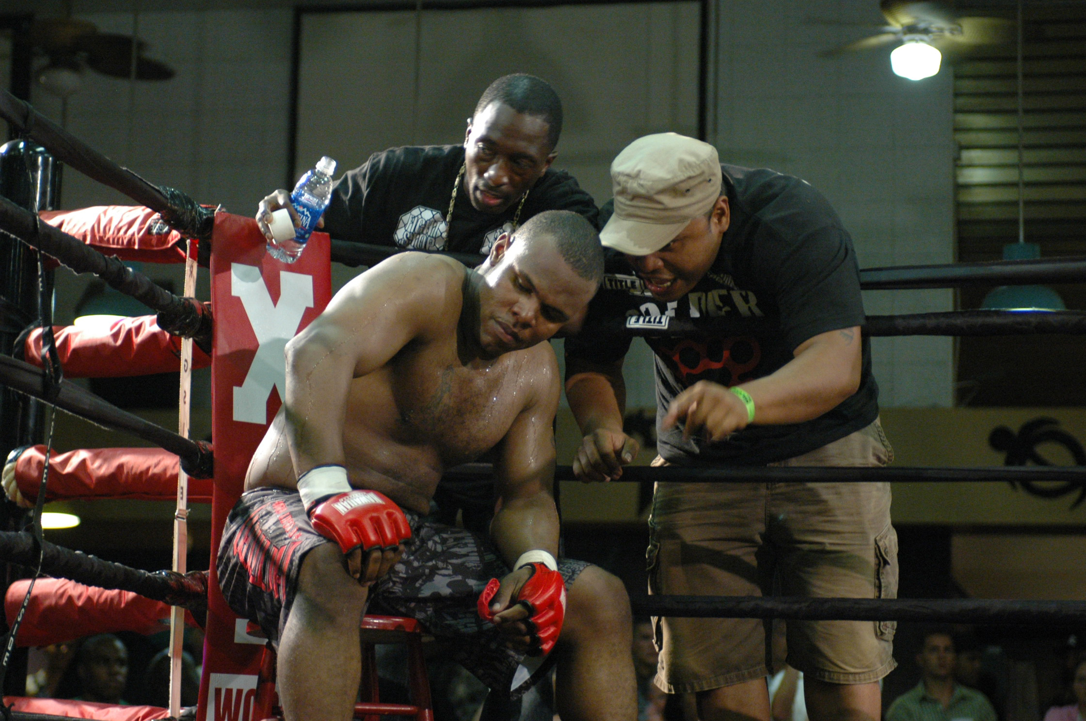 Sgt. 1st Class Anthony Chenault, 185-pound competitor, listens to guidance from his coaches during the main event mixed martial arts match at the 'Scuffle on Schofield' at the Tropics on Schofield Barracks, Hawaii, July 25. See more at target= MMA brings military, local fighters to a faceoff